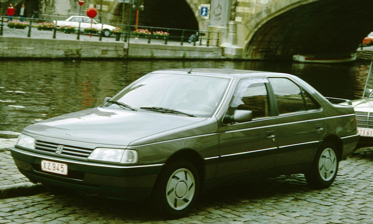 Peugeot 405 in Belgium - probably in Brugge/Bruges (otherwise Gent/Gand)